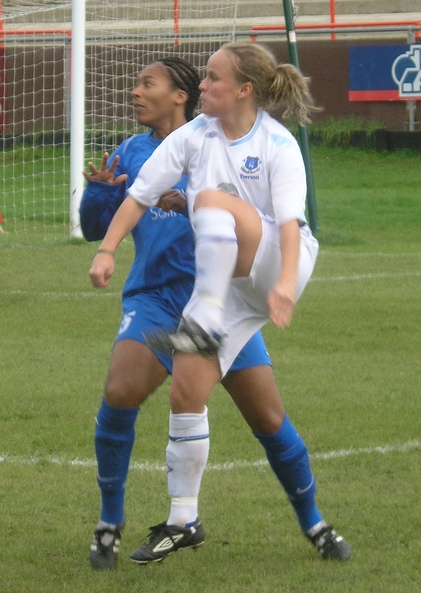 Bham City Ladies vs Everton in the League 2006/07 season